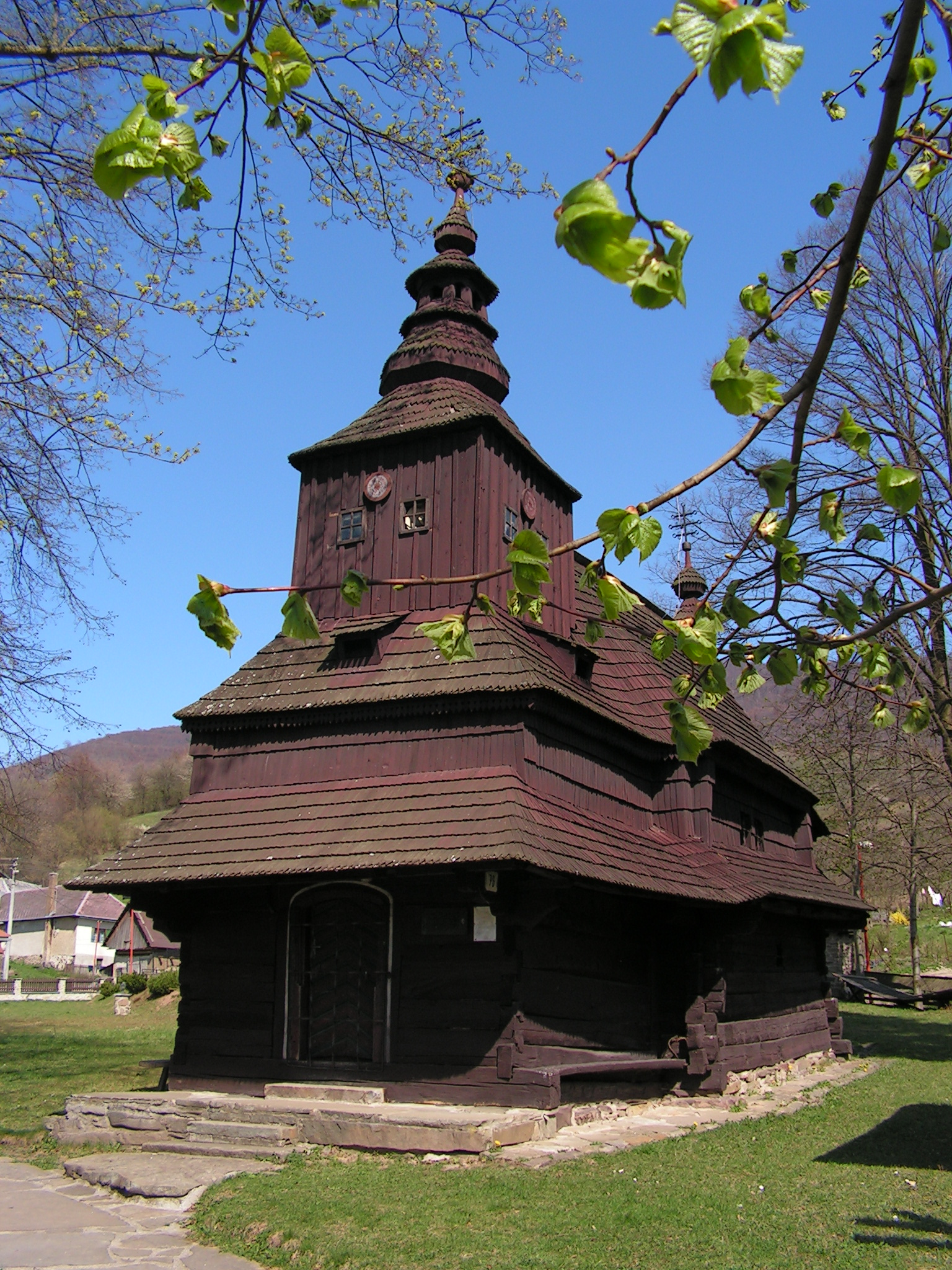 Ruský Potok wooden church